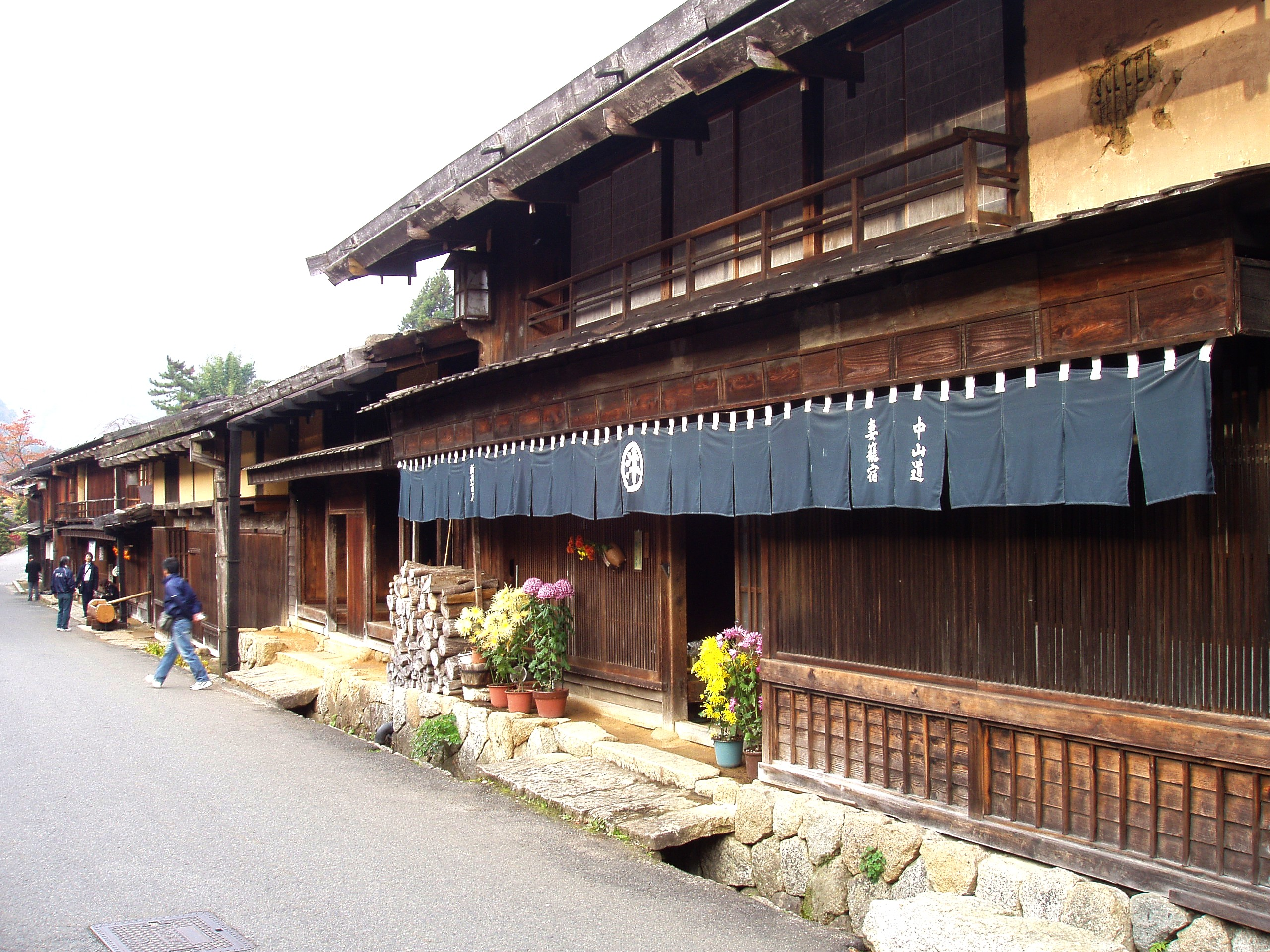 Building facades in Tsumago, Kiso District, Nagano Prefecture, Japan. Photograph taken by me, mid-November 2005.